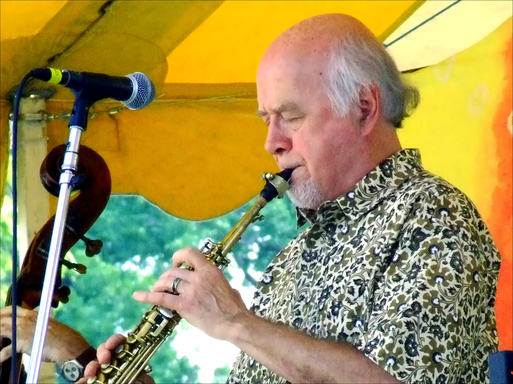 Paul Winter photographed at the Clearwater Festival 2007 by Anthony Pepitone